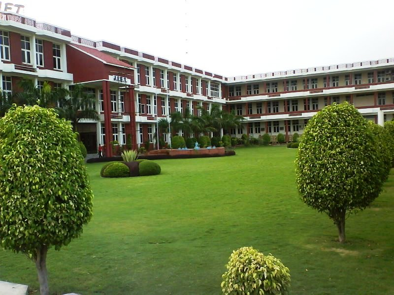 The image is of JIET college situated in Jind, Haryana, India.